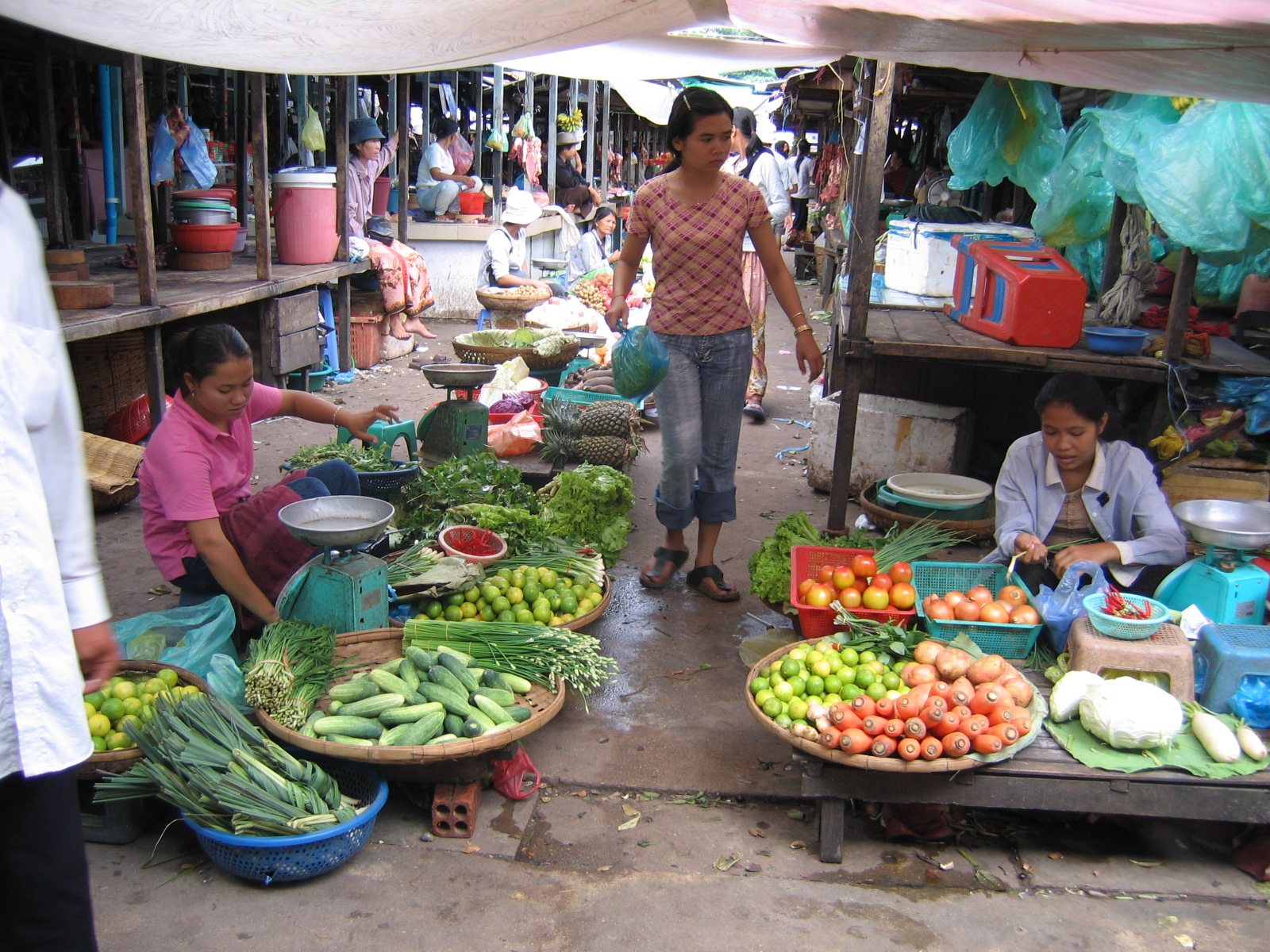 Phsar Beung Keng Kang